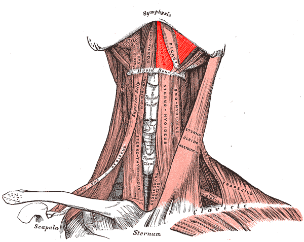 Mylohyoid muscle, drawing from Grays' Anatomy